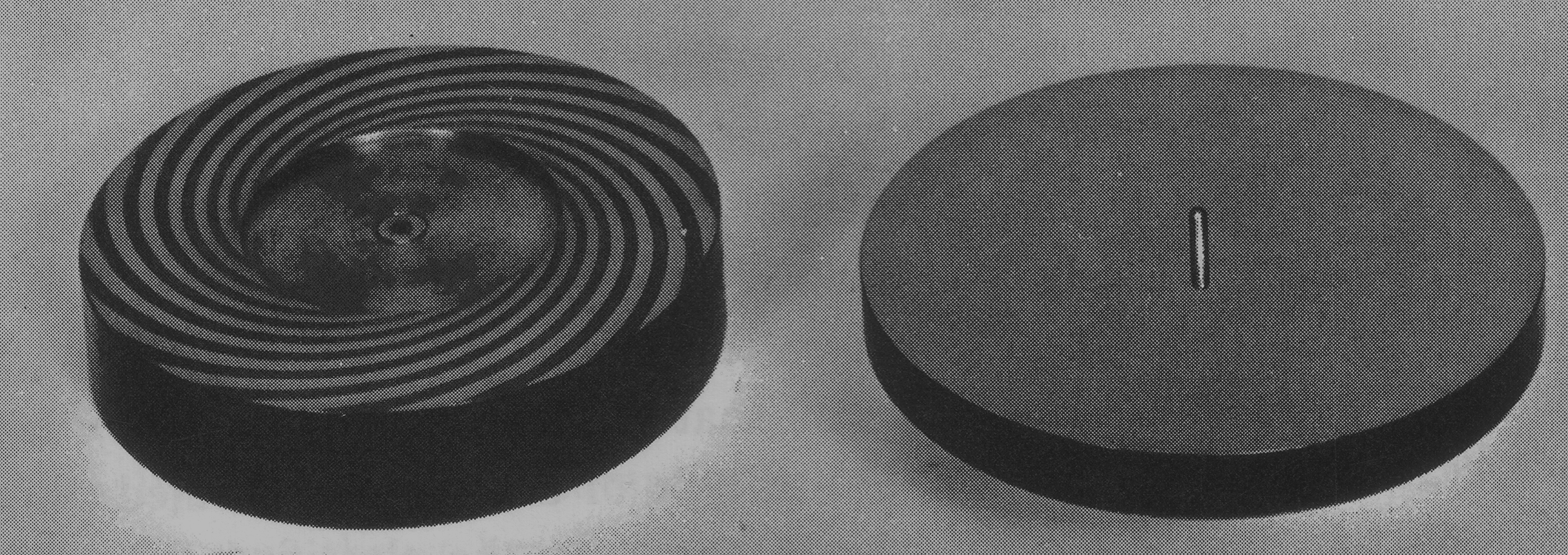 A spiral groove thrust bearing